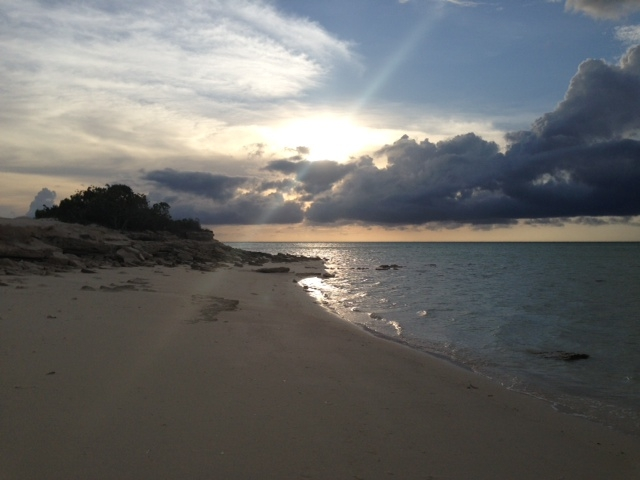 A sunset in Parrot Cay by COMO, Turks and Caicos